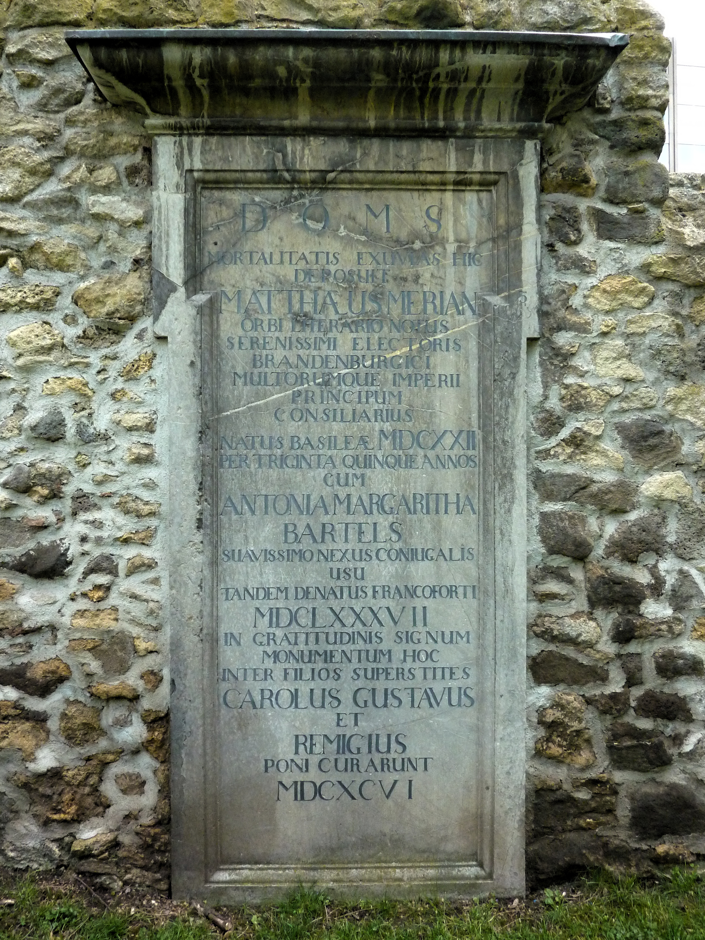 Frankfurt/M., Germany: Tombstone of Matthäus Merian in the graveyard of St. Peter’s